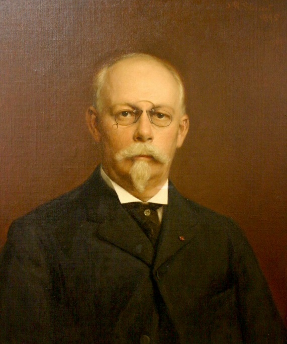 George Wilbur Peck (1840-1916)